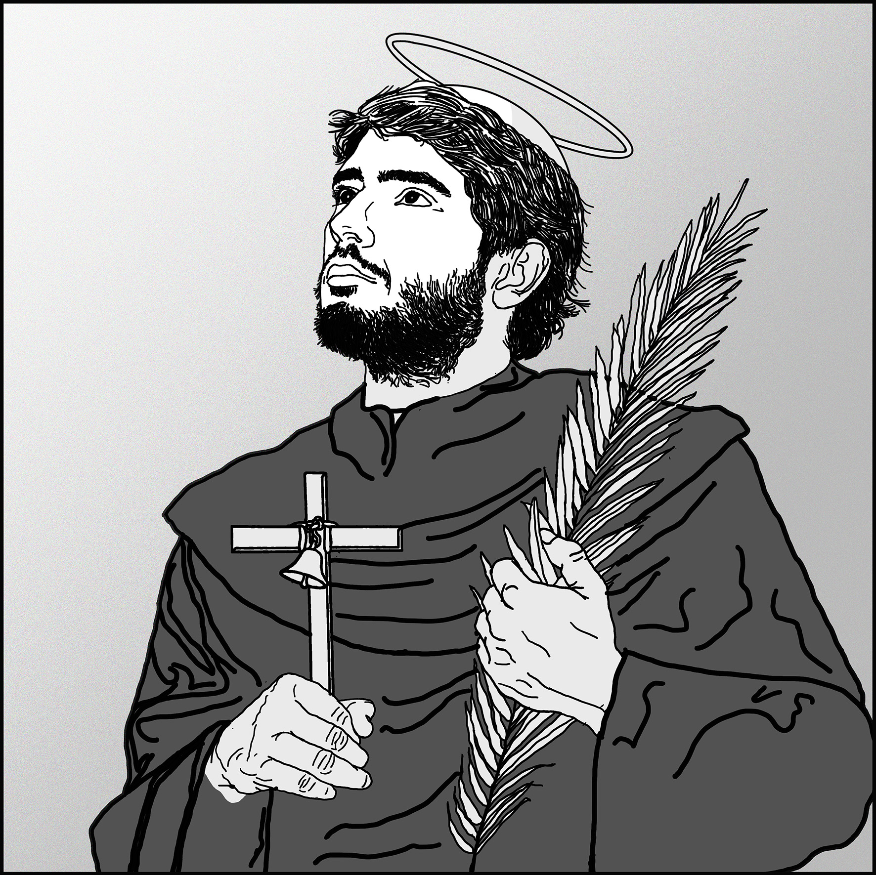 Drawing depicting Brother Leon de San José, an Augustinian Recollect martyr born in Peraleda de la Mata, Spain (1708) and killed in the Philippines (1740-41). His attributes are the palm of martyrdom and the cross of missionary with a little bell tied to it, representing the "Concejo de la Campana" (lit. the Council of the Bell), where he was born.